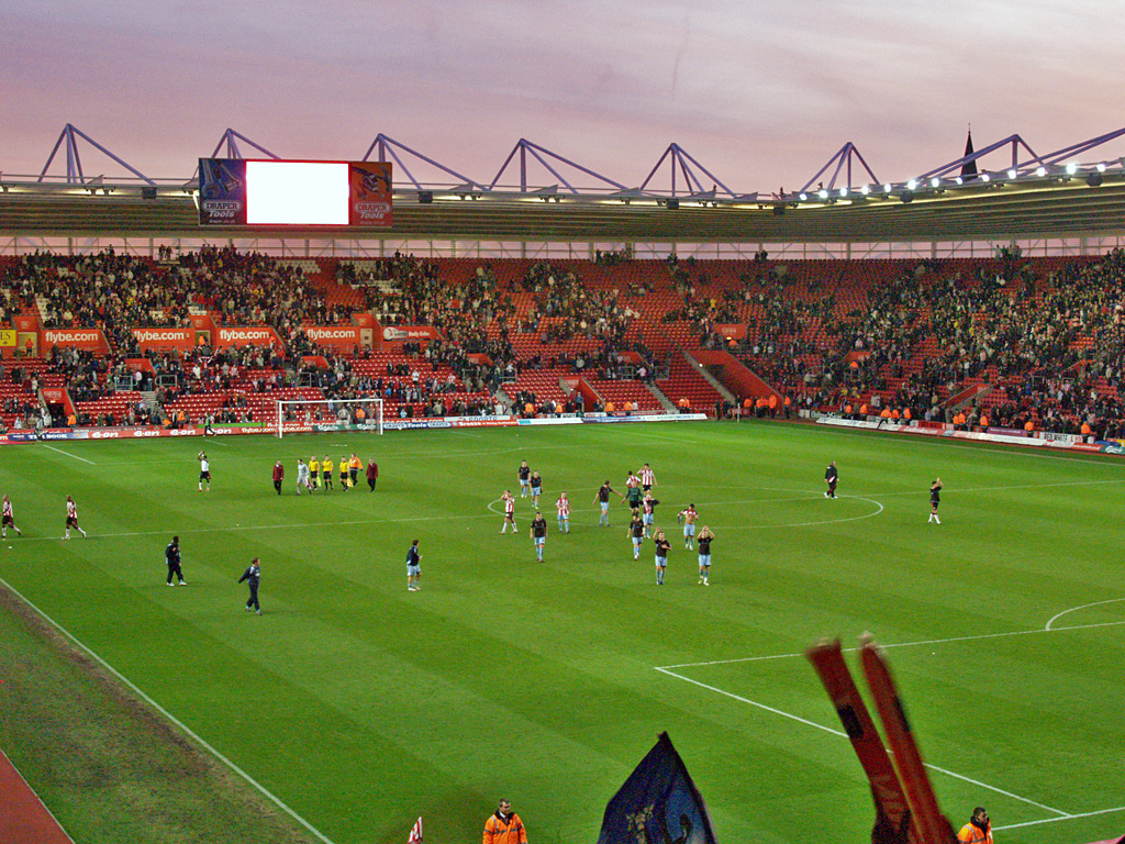 The Bury FC players applaud the Bury fans in the Northam Stand at The Friends Provident St. Mary’s Stadium, home of Southampton FC. Saturday 26th January 2008